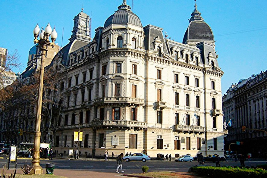 Plaza de Mayo entre las calles Bolivar y Avenida de Mayo